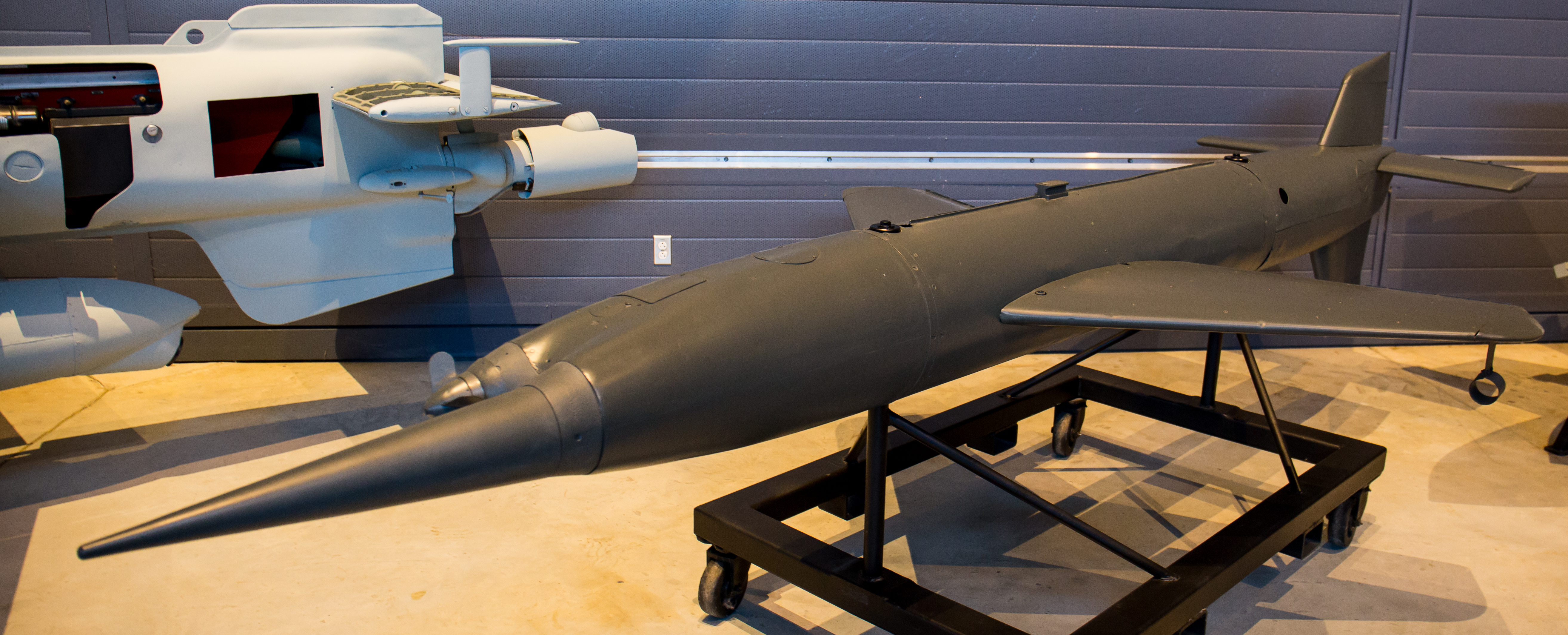 A Hs 117 Schmetterling missile on display at the Smithsonian Air and Space Museum Udvar-Hazy Center.